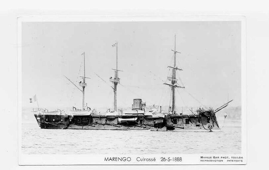 Marengo photographed by Marius Bar in 1888